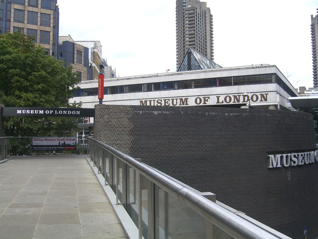 Infernalfox. Museum of London. Taken 2006, Casio Exilim Z750.